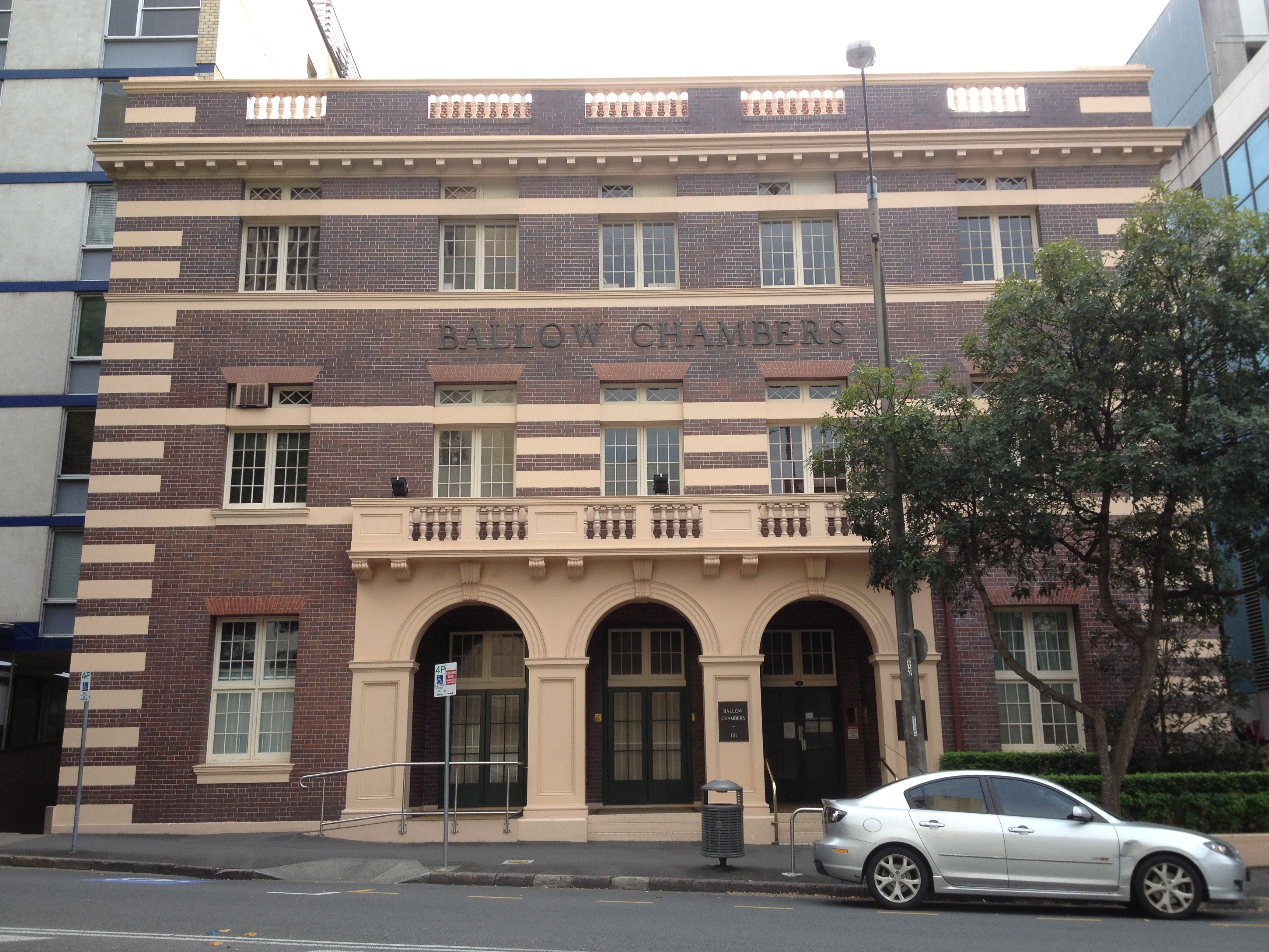 Ballow Chambers, 121 Wickham Terrace, Brisbane